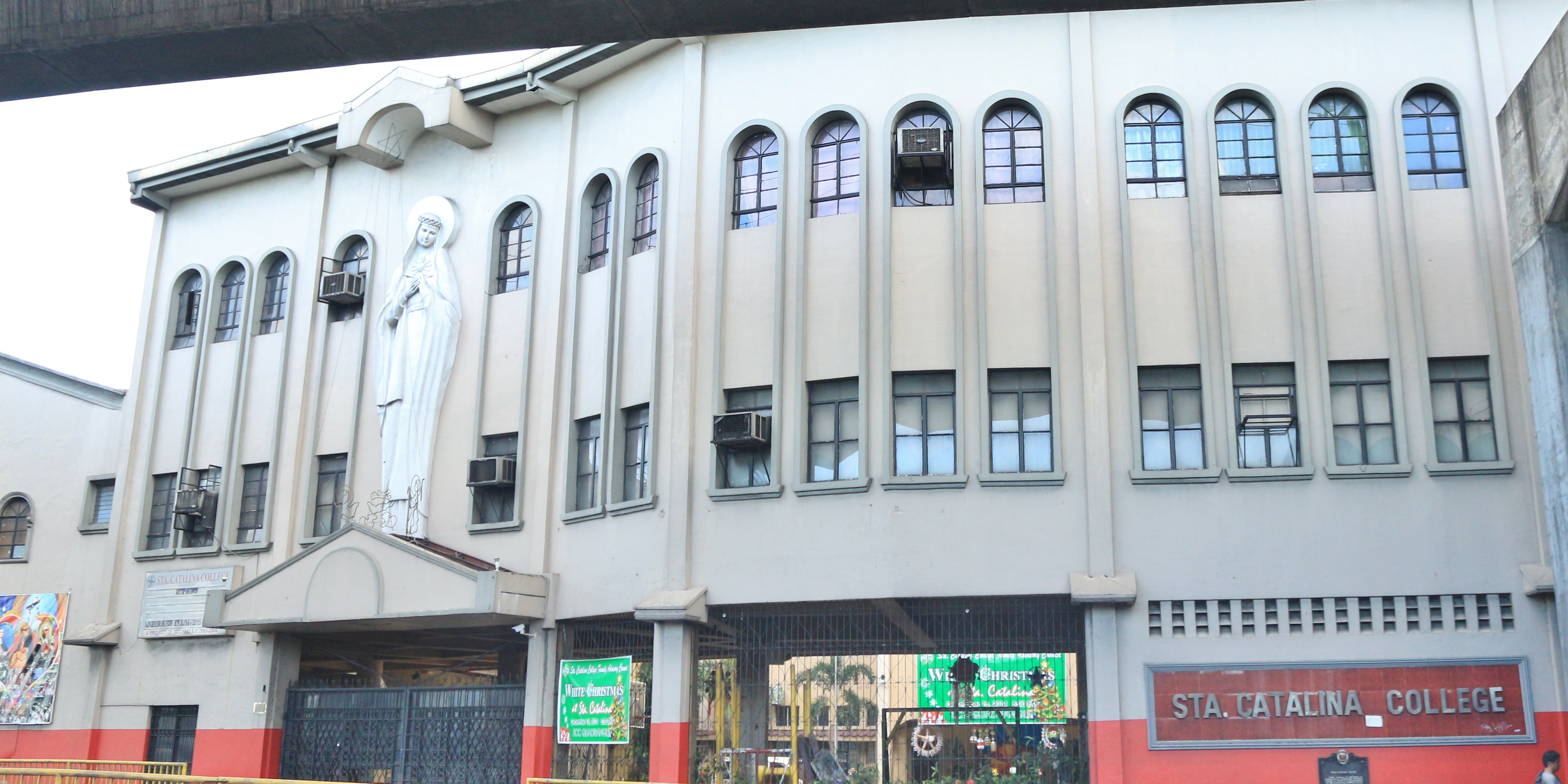 Santa Catalina College Manila facade 4